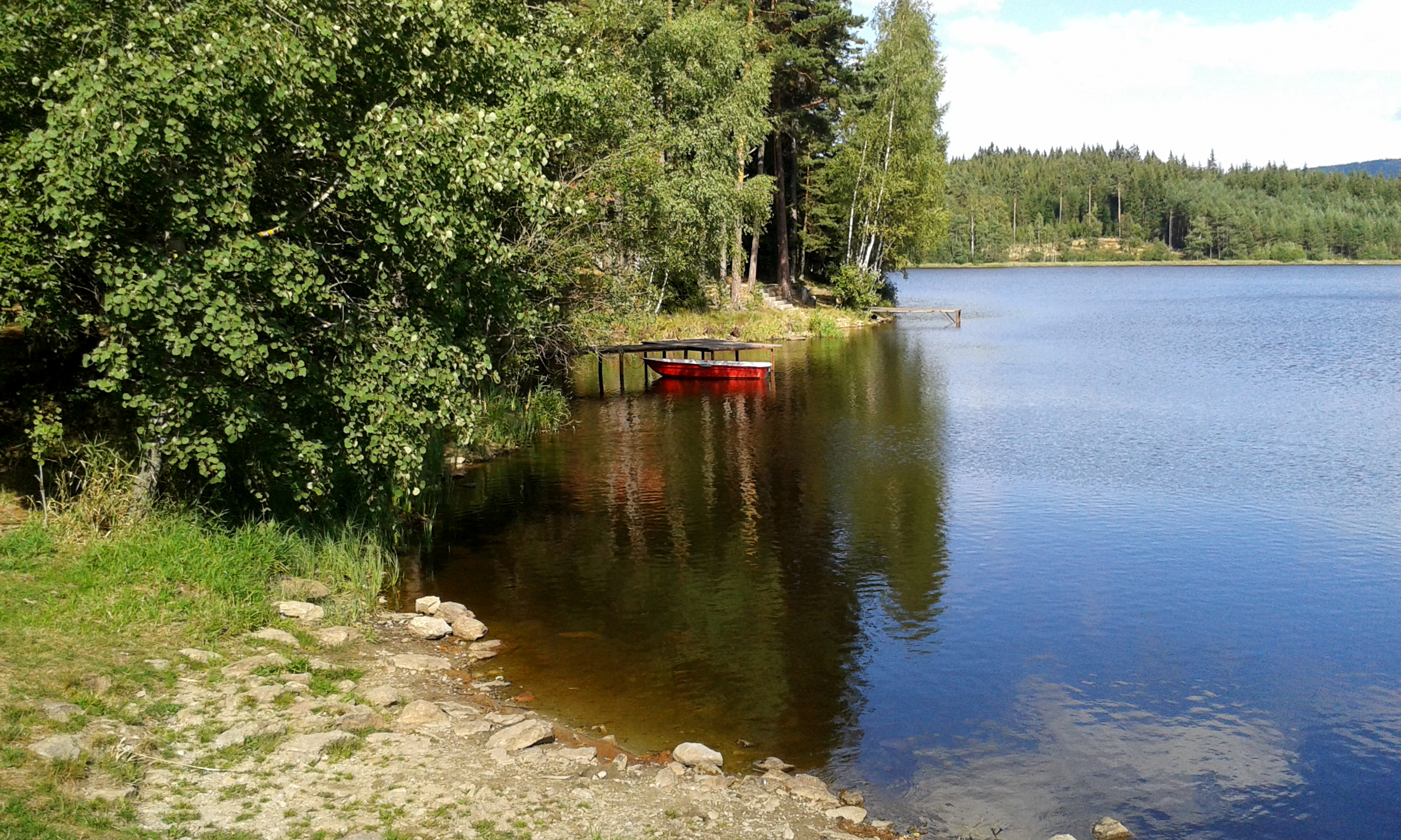 Křišťanovický Pond in Prachatice District, South Bohemian Region, Czech Republic.